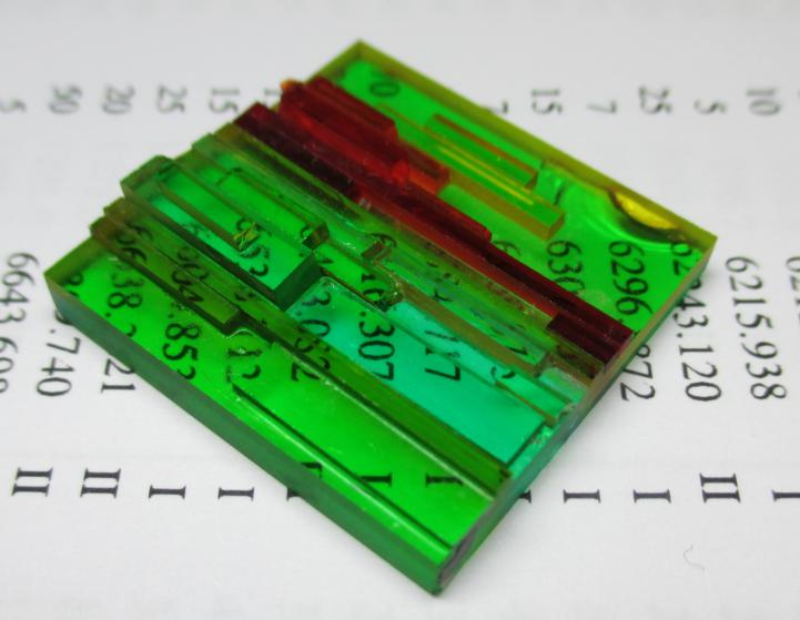 Partial filter, made of optical colour glass filters by mosaik-filtering method, used in high-end photometer heads only.